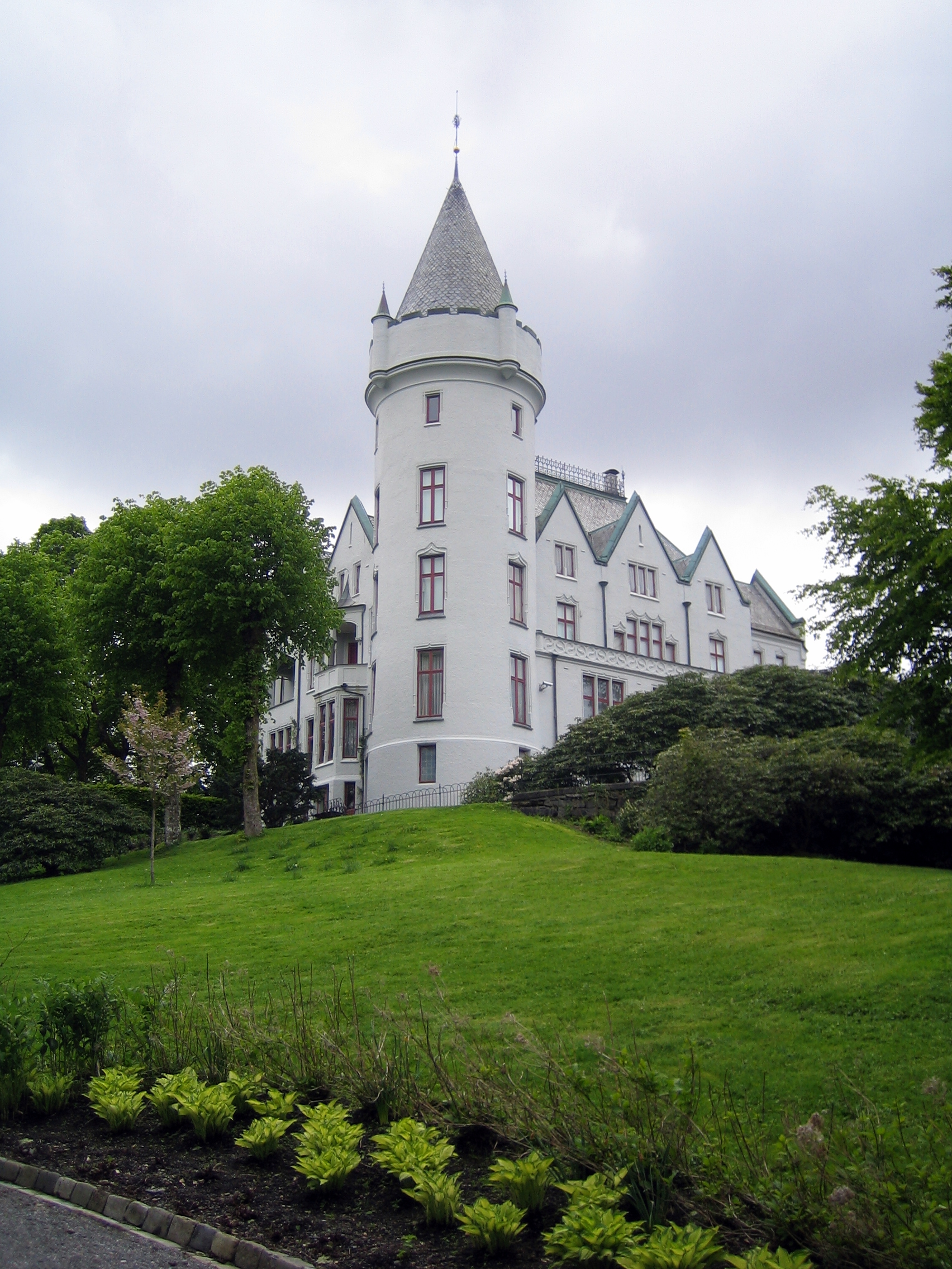 Gamlehaugen, home of former prime minister Christian Michelsen, currently one of the mansions of the royal family, in Bergen, Norway